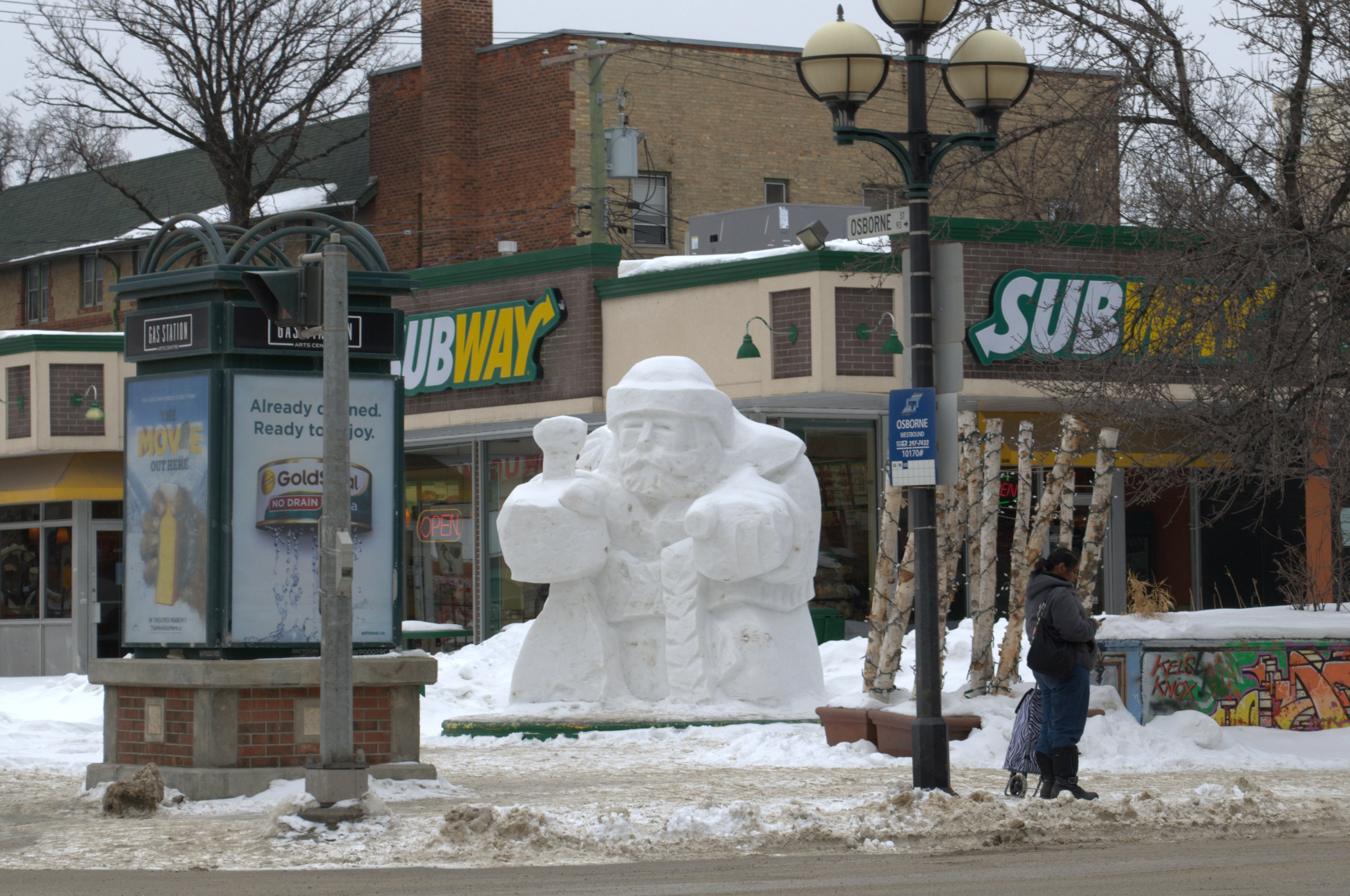 Sculpture for Festival du Voyageur in Winnipeg, Manitoba. Located at the corner of Osborne Street and River Avenue. February 2013.